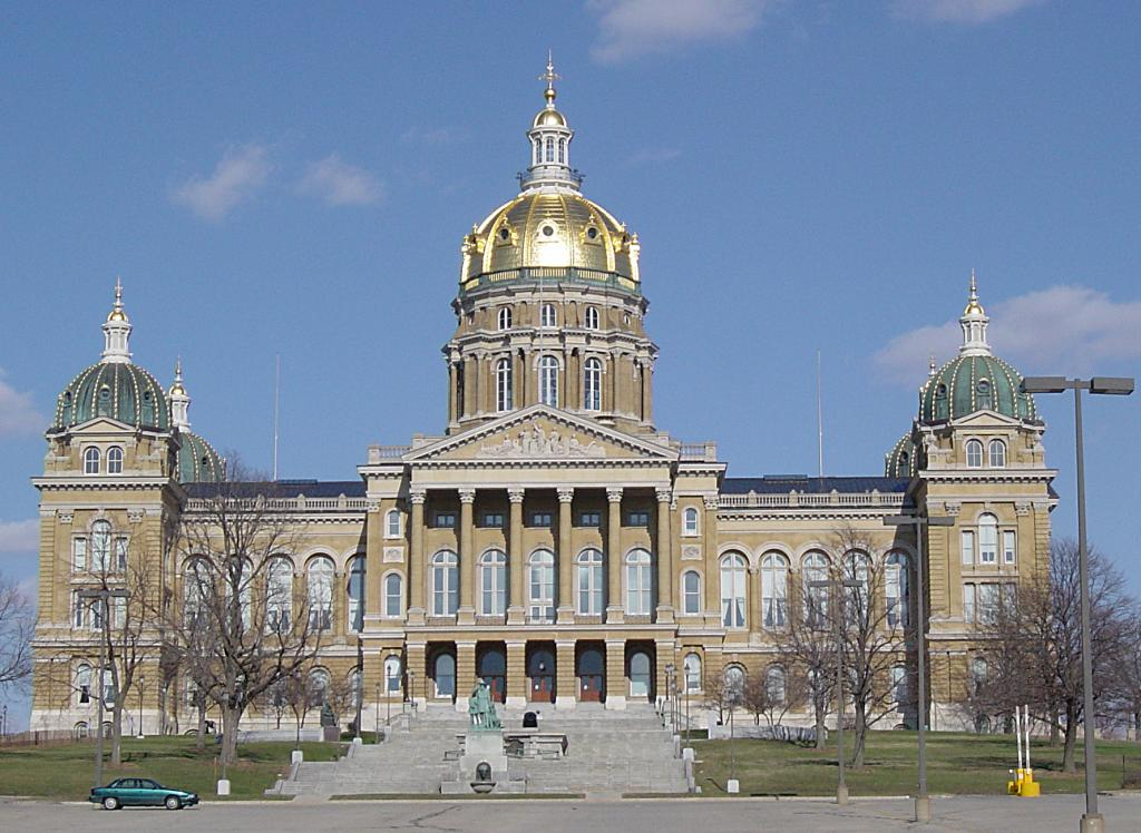 Iowa State Capitol in Des Moines, Iowa, after the dome was regilded in 23 karat gold.